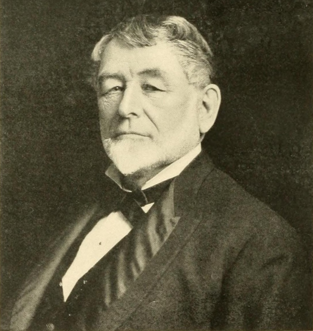 Spencer O. Fisher (Michigan Congressman)